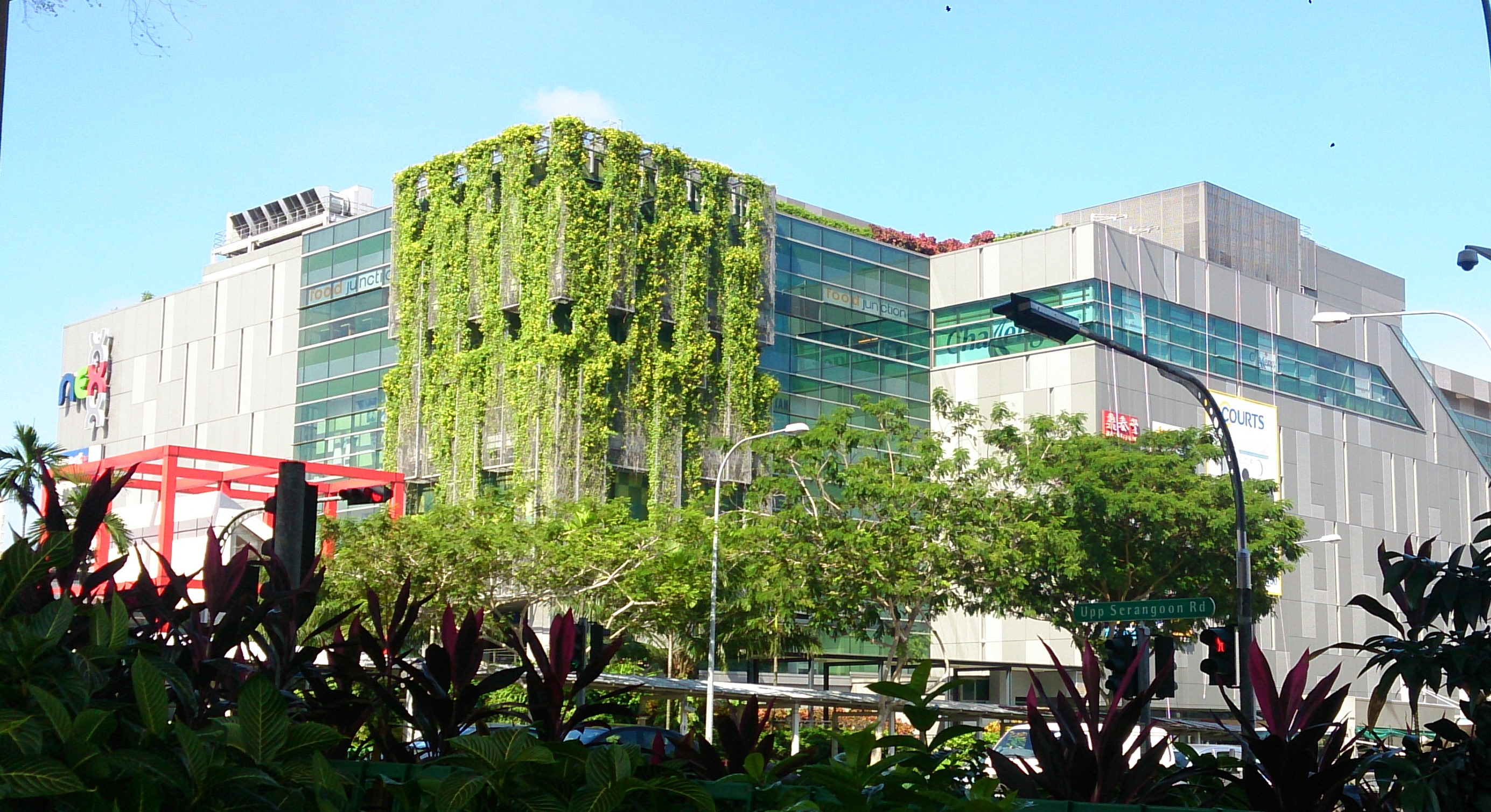 Nex is a mega shopping centre just beside Serangoon MRT station in Singapore. It has been operational since 2010.